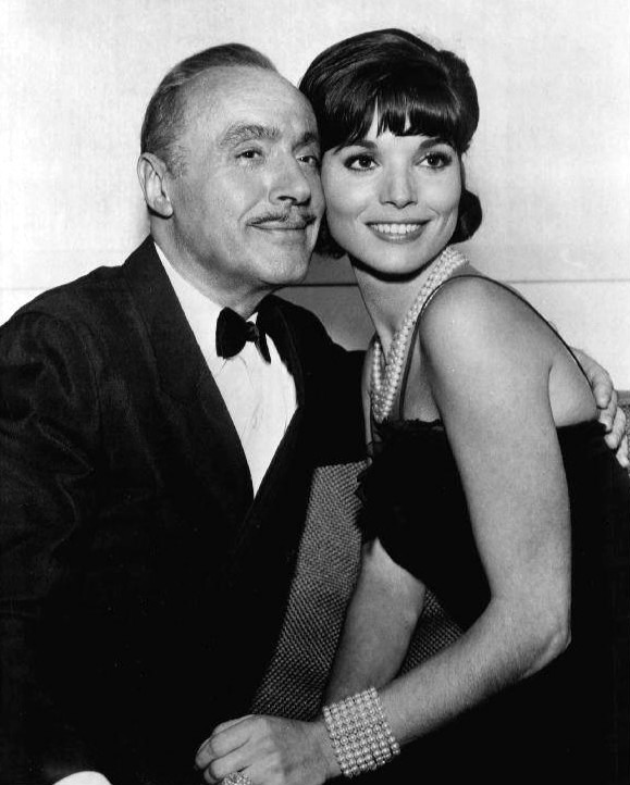 Photo of Charles Boyer and Elsa Martinelli from the television program The Rogues.